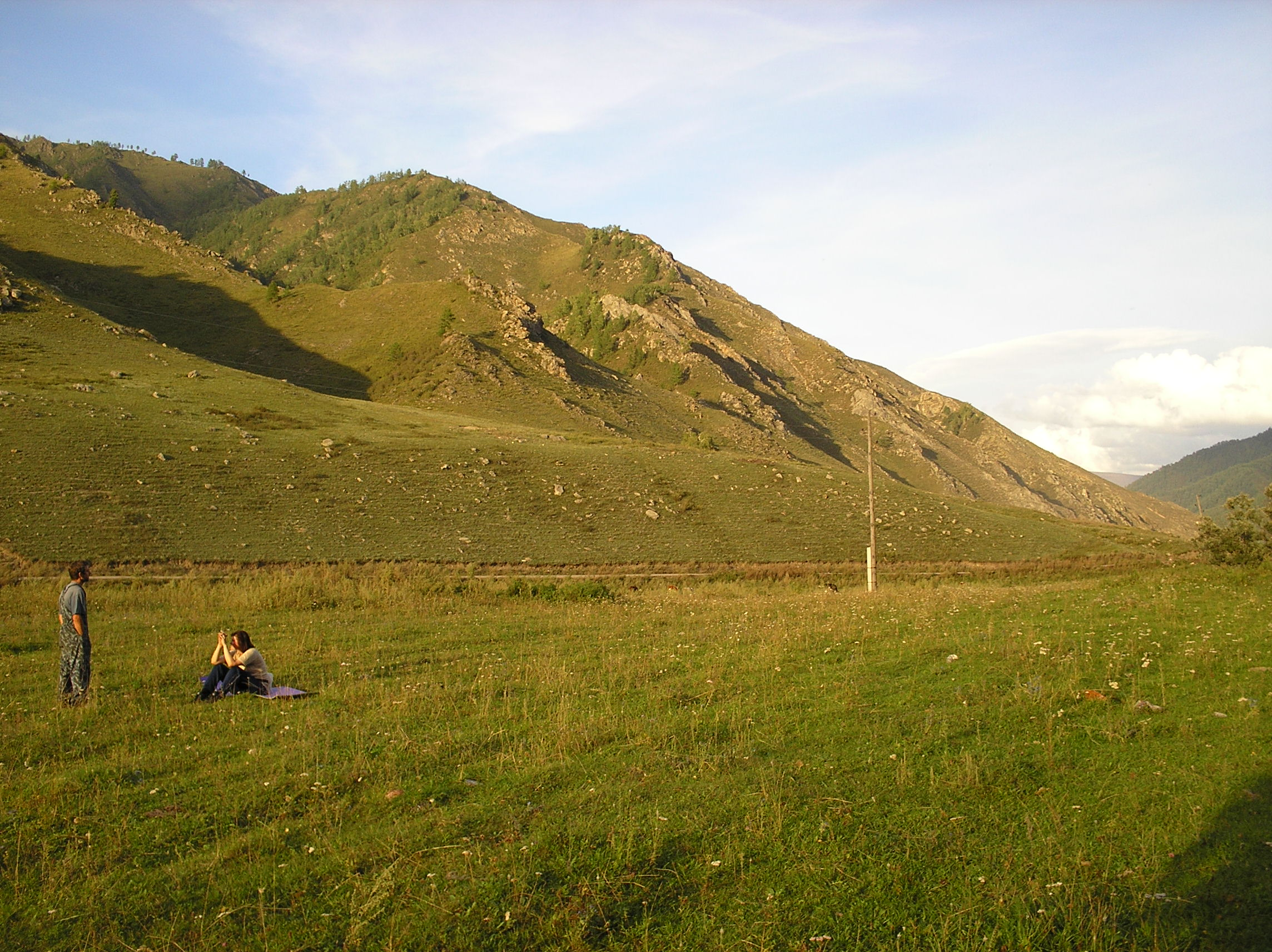 Near Edigan settlement in Chemalsky District